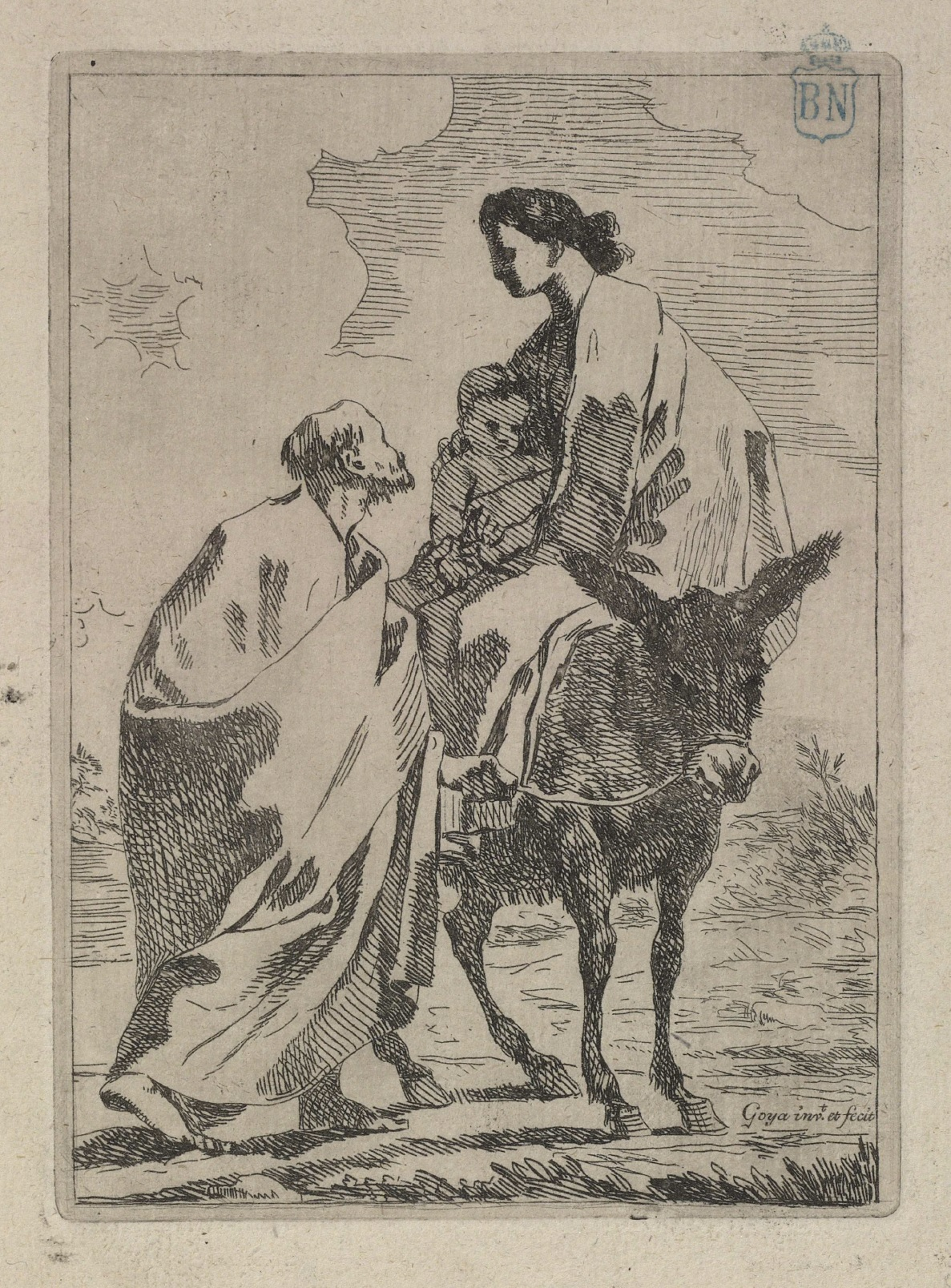 Huida a Egipto (Flight into Egypt) is an etching realized by Francisco de Goya in 1771-1774.